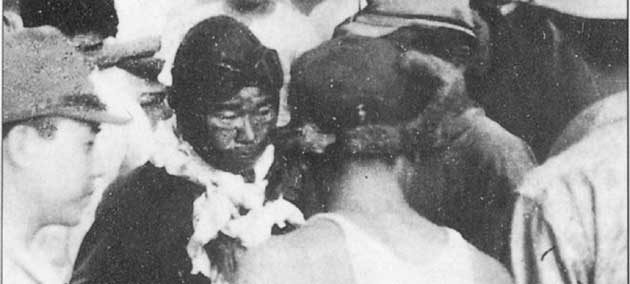 Guadalcanal, 8th August, 1942: Taking a .30 cal. round to the head in combat, the bullet split the upper frame of the right glass of Sakai's flight goggles and bounced off his skull. Covered with blood, blind in one eye and barely conscious, he shifts his silk scarf under his flight helmet to stop the bleeding and returns to his base in an epic 4 1/2 hour flight, while everybody has given up on him. He never regained the vision of his right eye, but a year later he was back in the cockpit.